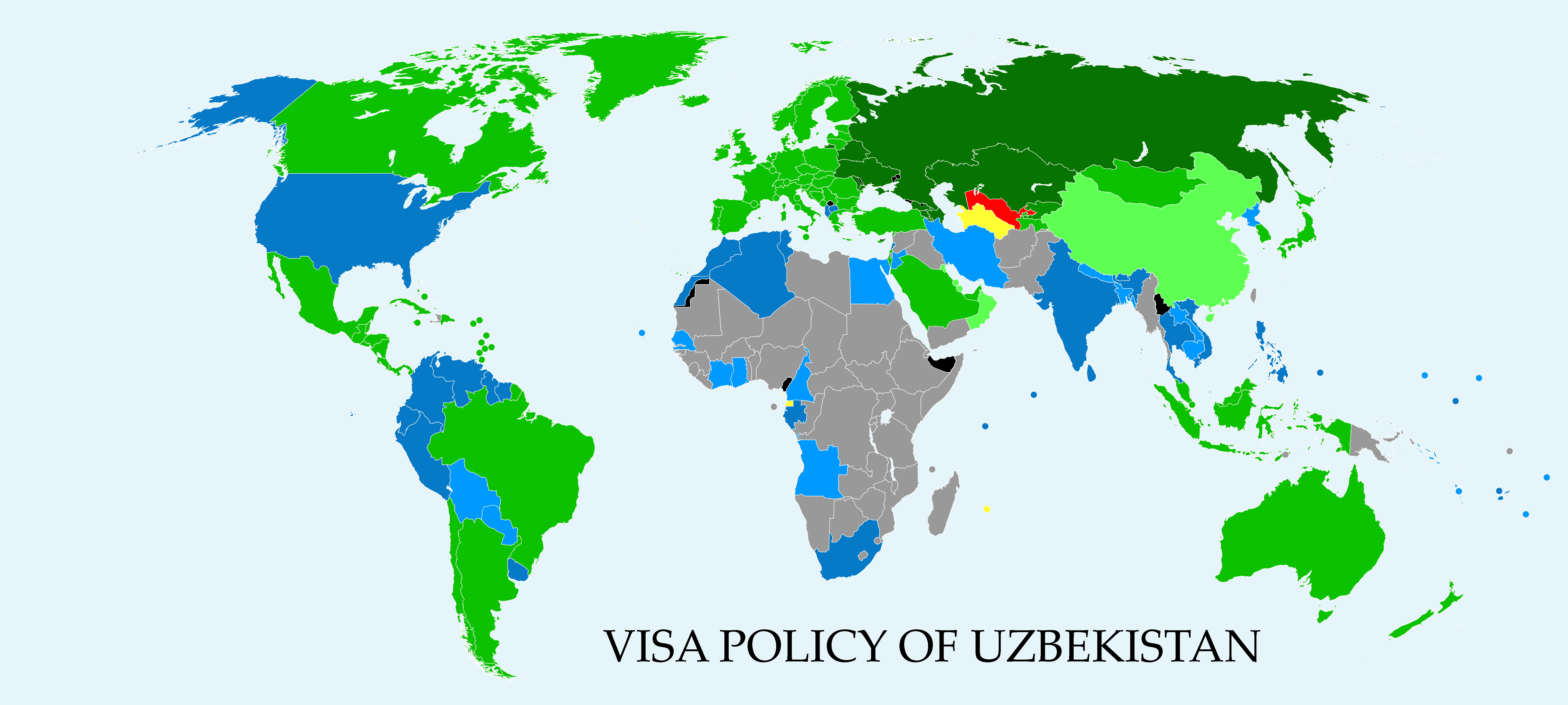 Visa policy of Uzbekistan Uzbekistan Visa exempt for 90 days Visa exempt for 60 days Visa exempt for 30 days Eligible for e-visa and visa-free transit Eligible for e-visa Eligible for visa-free transit Visa required in advance Oʻzbekcha/ўзбекча: Oʻzbekistonning viza siyosati Oʻzbekiston Viza talab etilmaydi (90 kun) Viza talab etilmaydi (60 kun) Viza talab etilmaydi (30 kun) Elektron viza va vizasiz tranzit Elektron viza Vizasiz tranzit Viza talab etiladi